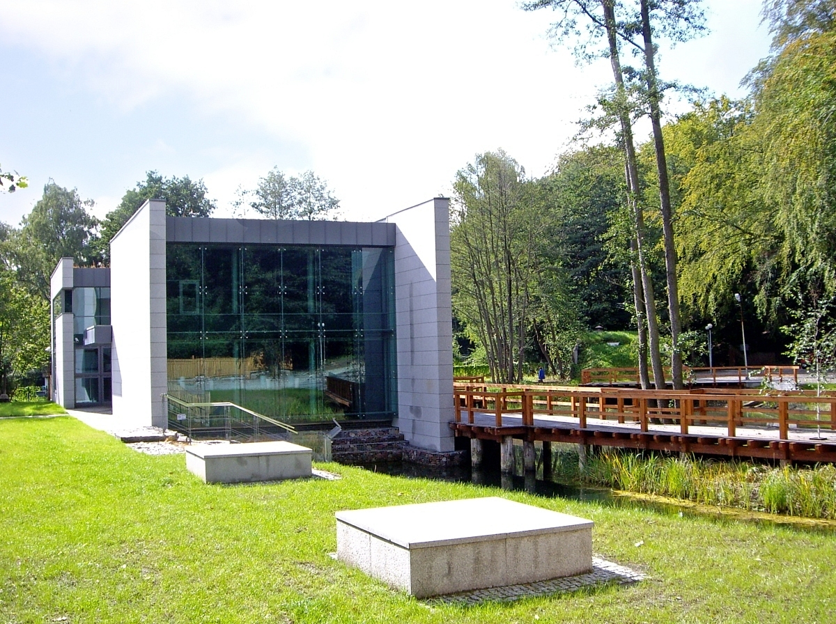 Grodzisko, Sopot, Poland